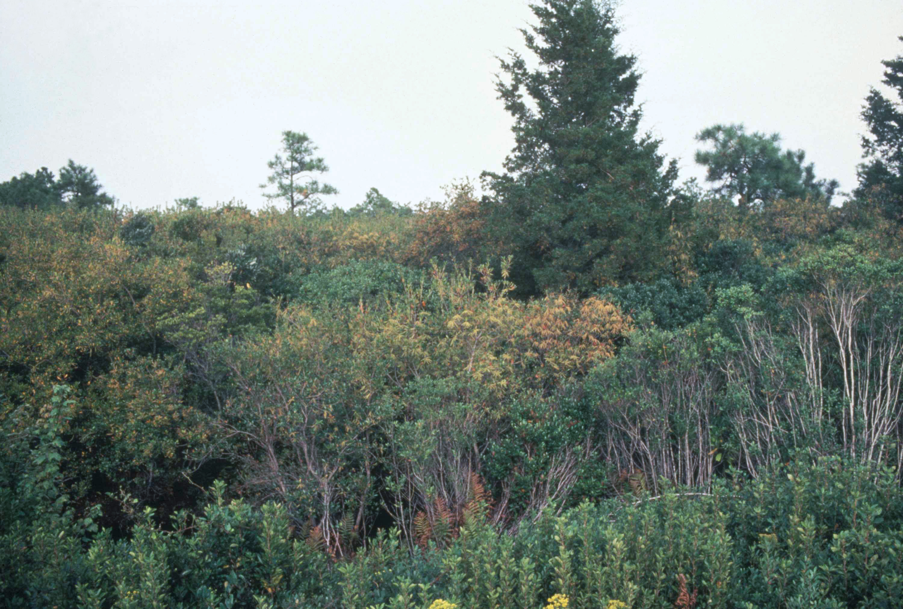 Image title: A shot of a pocosin wetland in North Carolina Image from Public domain images website